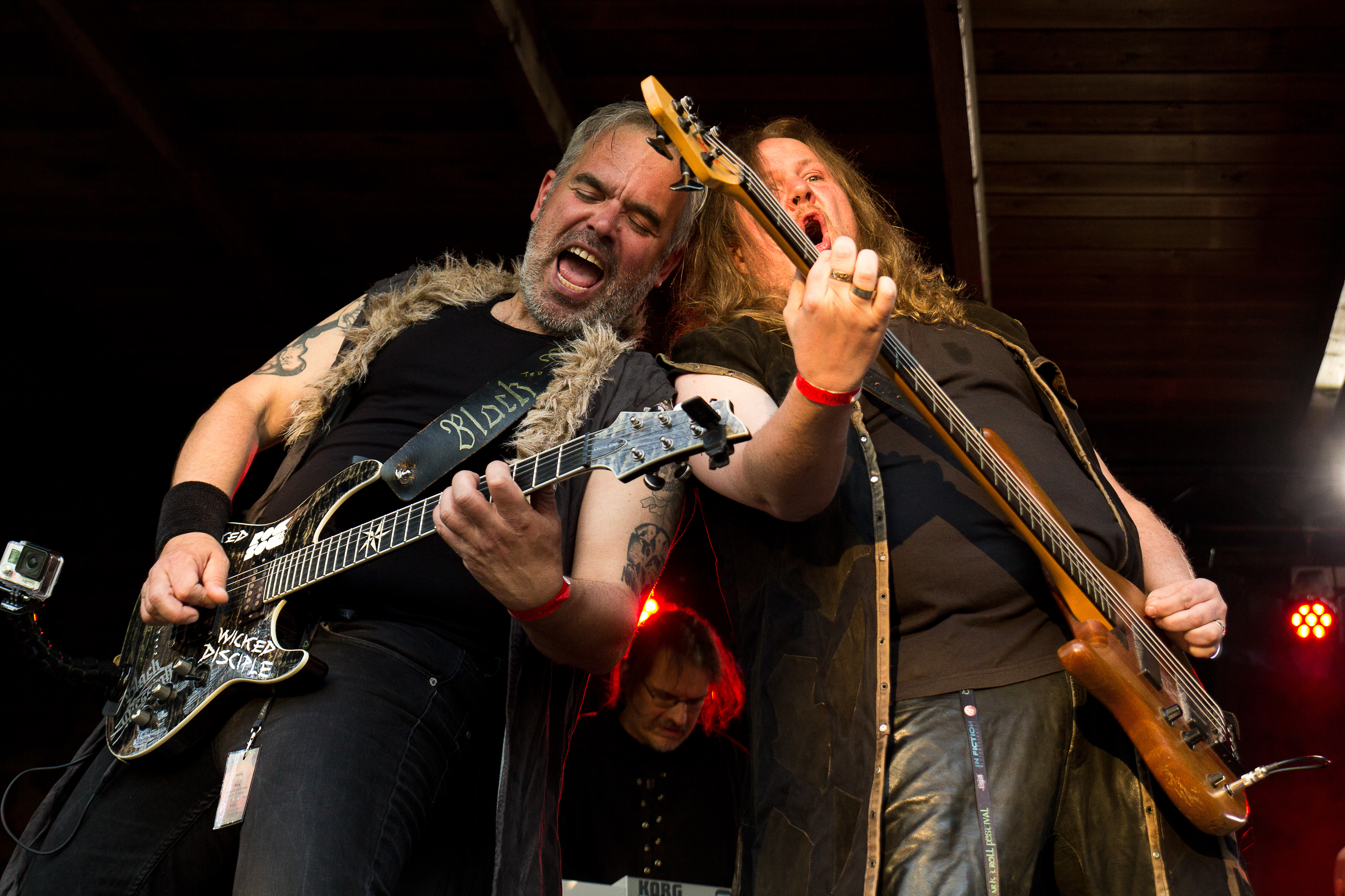 The German pagan metal band Black Messiah at the Dark Troll Open Air 2016 in Bornstedt/Germany.